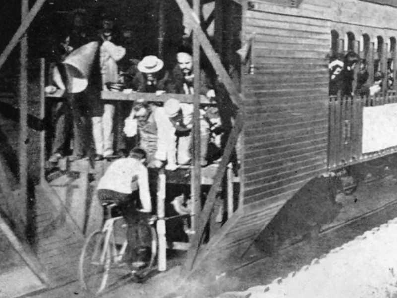 Fred Burns announcing from the back of the Long Island Railroad train which led Charles "Mile-A-Minute" Murphy on his 57.8 second ride in one mile from behind.